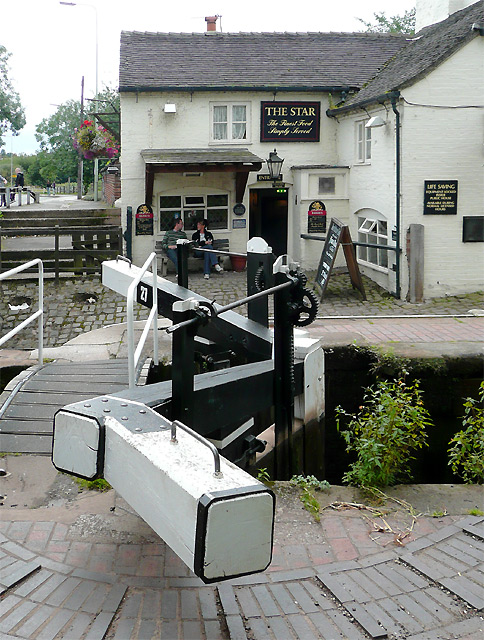 Lock gates and The Star, Stone, Staffordshire. The Trent and Mersey Canal has a flight of four locks at Stone, altering the water level by over 39 feet (12 metres). This one by the Star public house is the bottom lock, and the bottom mitre gates are shown. The pub is a popular one, and there is usually an audience for any boaters working through the lock.